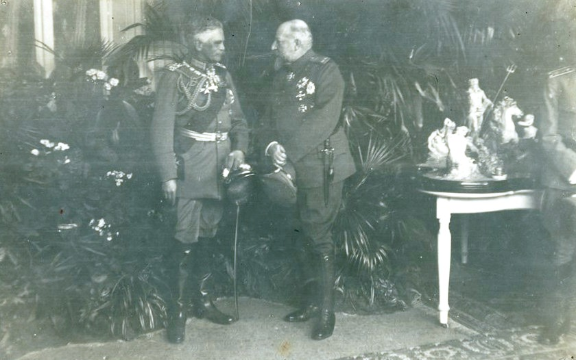 Ferdinand I of Bulgaria